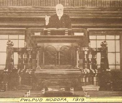 Rev. William Morris, Noddfa Treorchy's first minister between 1869 and 1922.